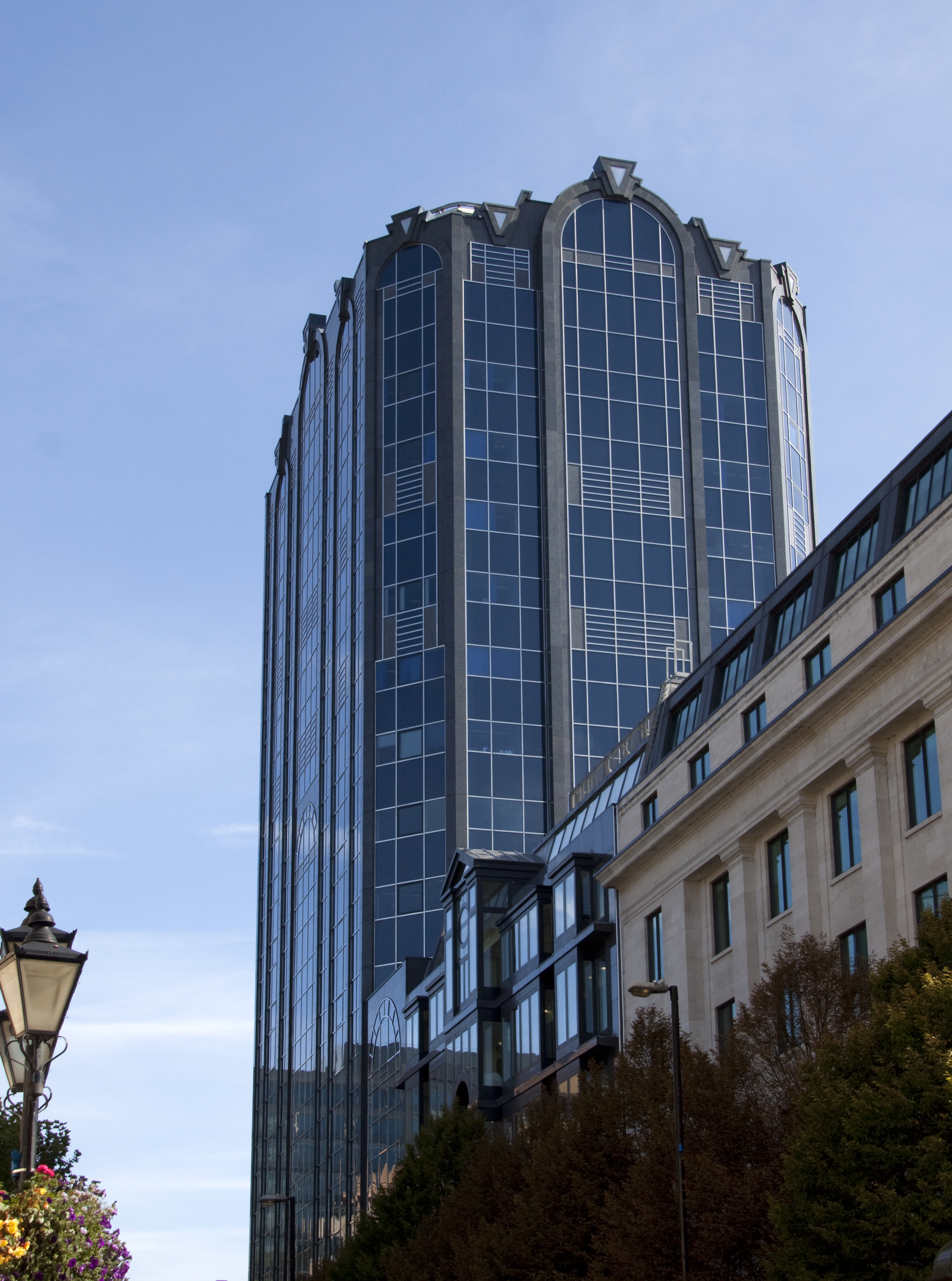 Colmore Gate is an example of early 1990s architecture by the Seymour Harris Partnership. Interestingly there are few examples of original Art Deco architecture in the centre of Birmingham, but this building does take some of its styling queues from this period